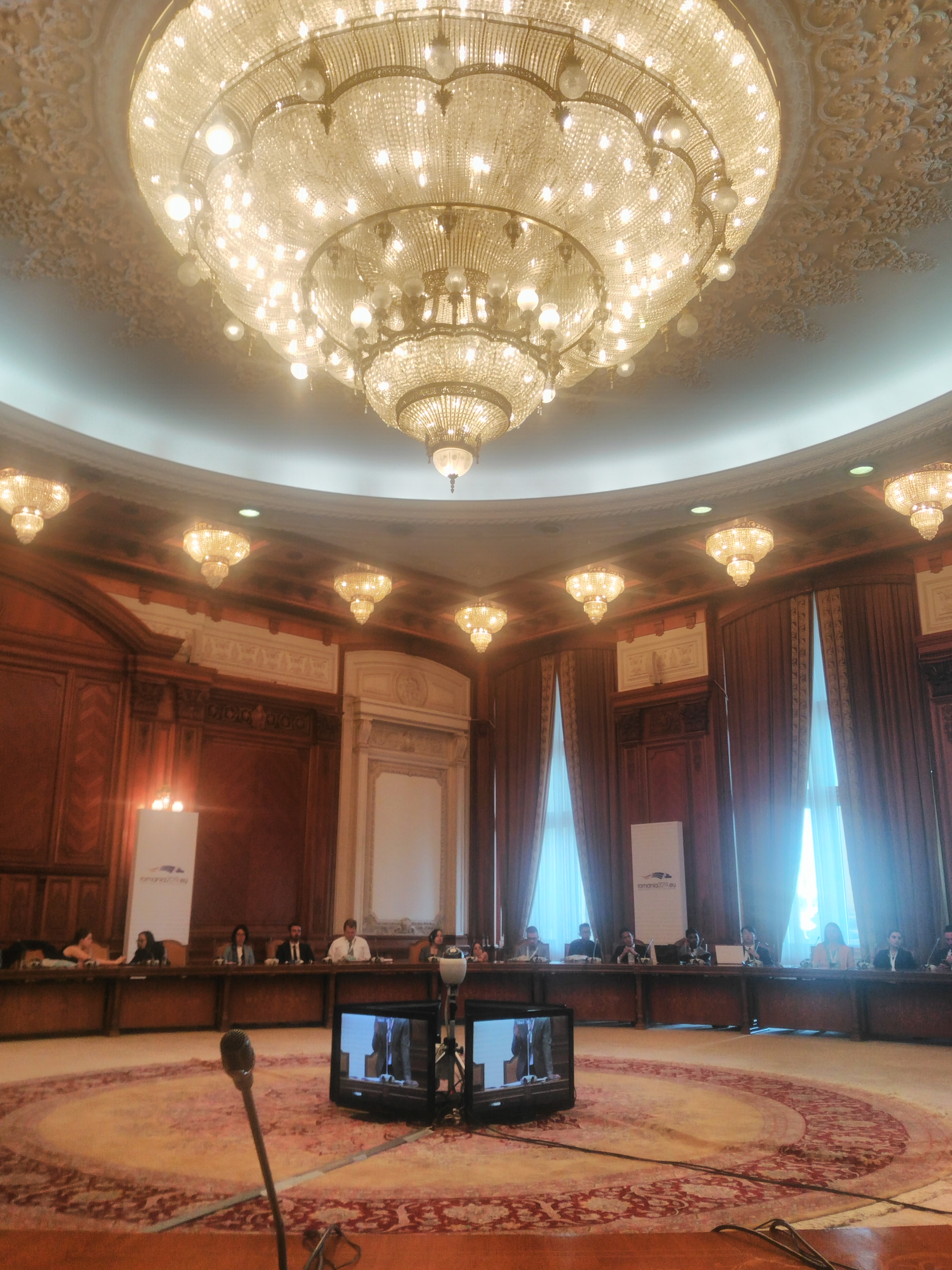 7th ASEF Rectors' Conference and Student Meeting in the building of the Parliament of Romania.